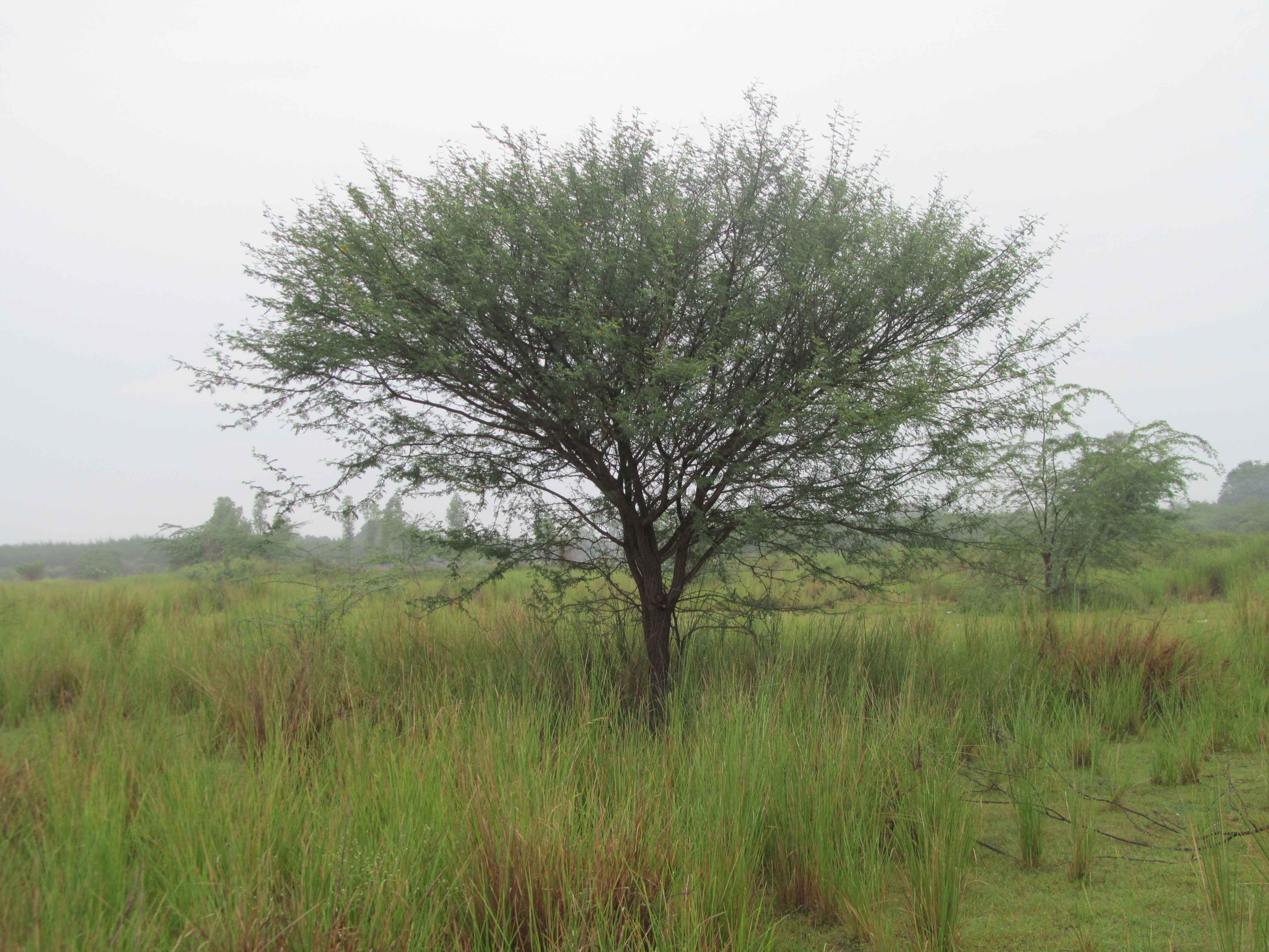 Prosopis juliflora belongs to family of Fabaceae